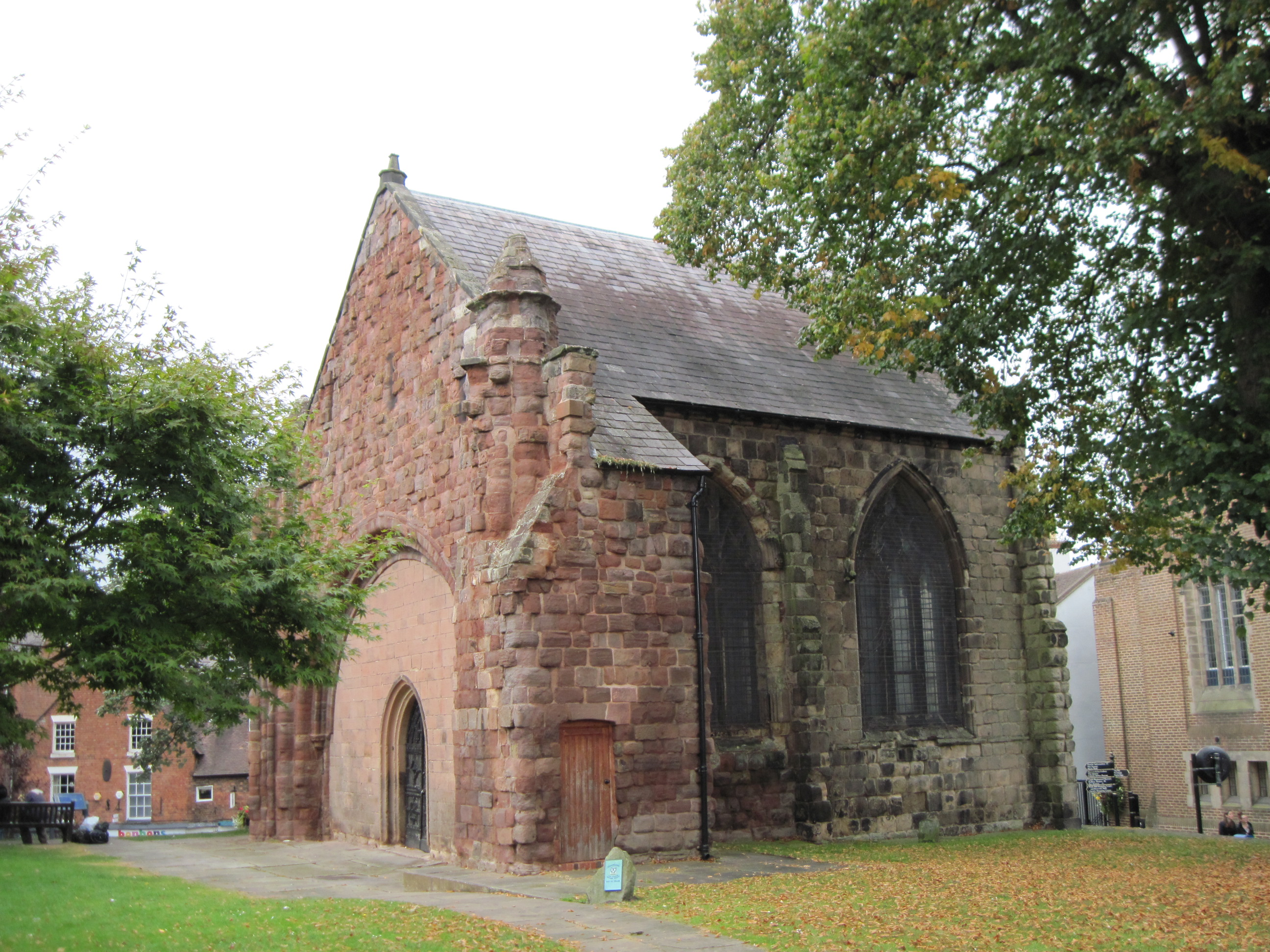 Remains of St Chad's Church, Shrewsbury. Wikidata has entry Q17542381 with data related to this building.